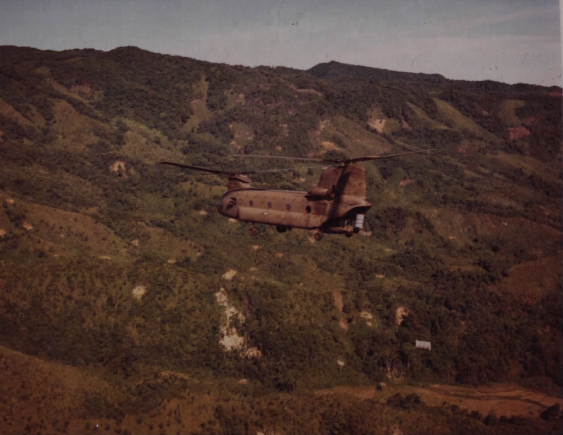 OPERATION PERSHING. A CH-47 "Chinook" helicopter of the 1st Squadron, 9th Cavalry, 1st Cavalry Division (Airmobile), dumps 55 gallon drums of CS (Riot-Control) gas into suspected VC emplacements.